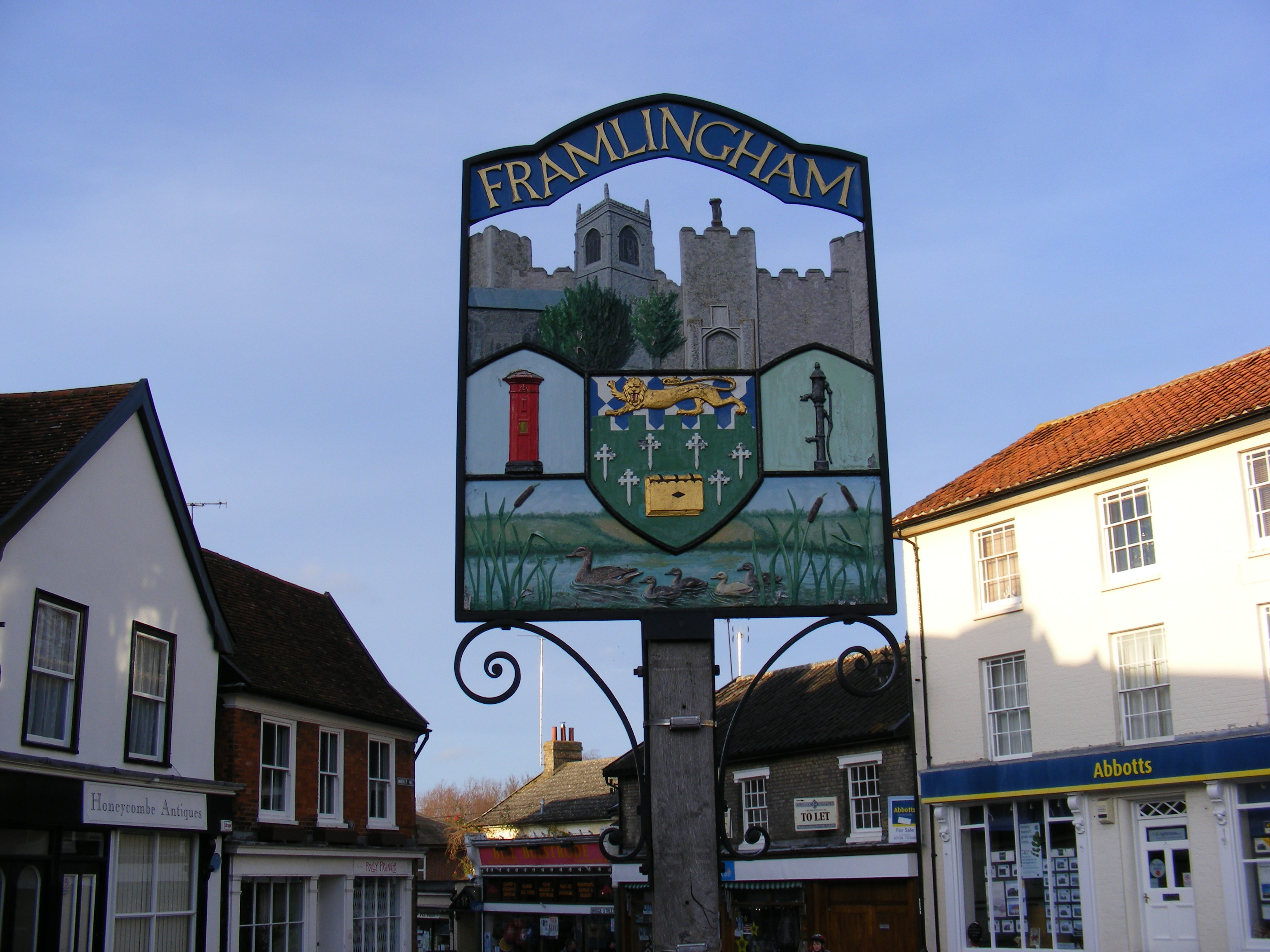 Framlingham Town Sign (Close up)